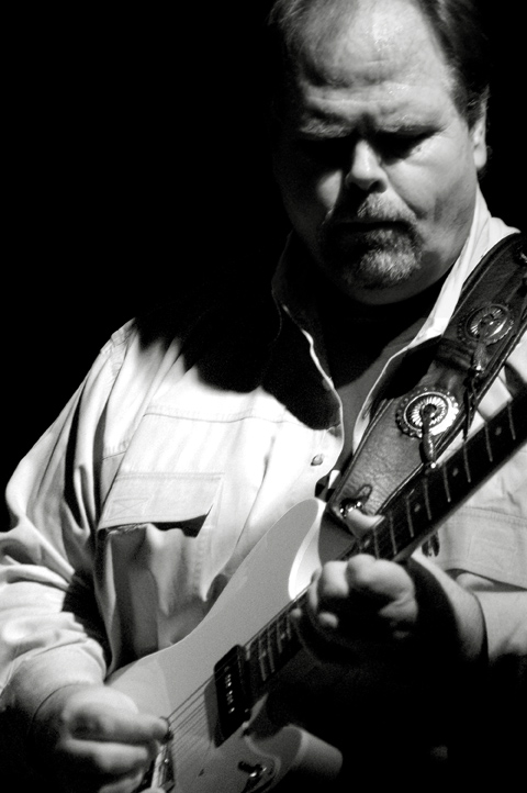 John Mayall's Bluesbrakers Event: Pistoia Blues, Pistola, Italy 2007